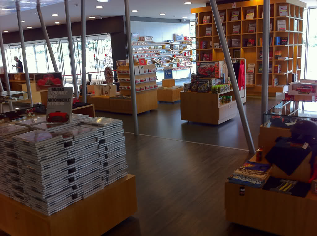 Bookshop of Automobiles Museum in Turin